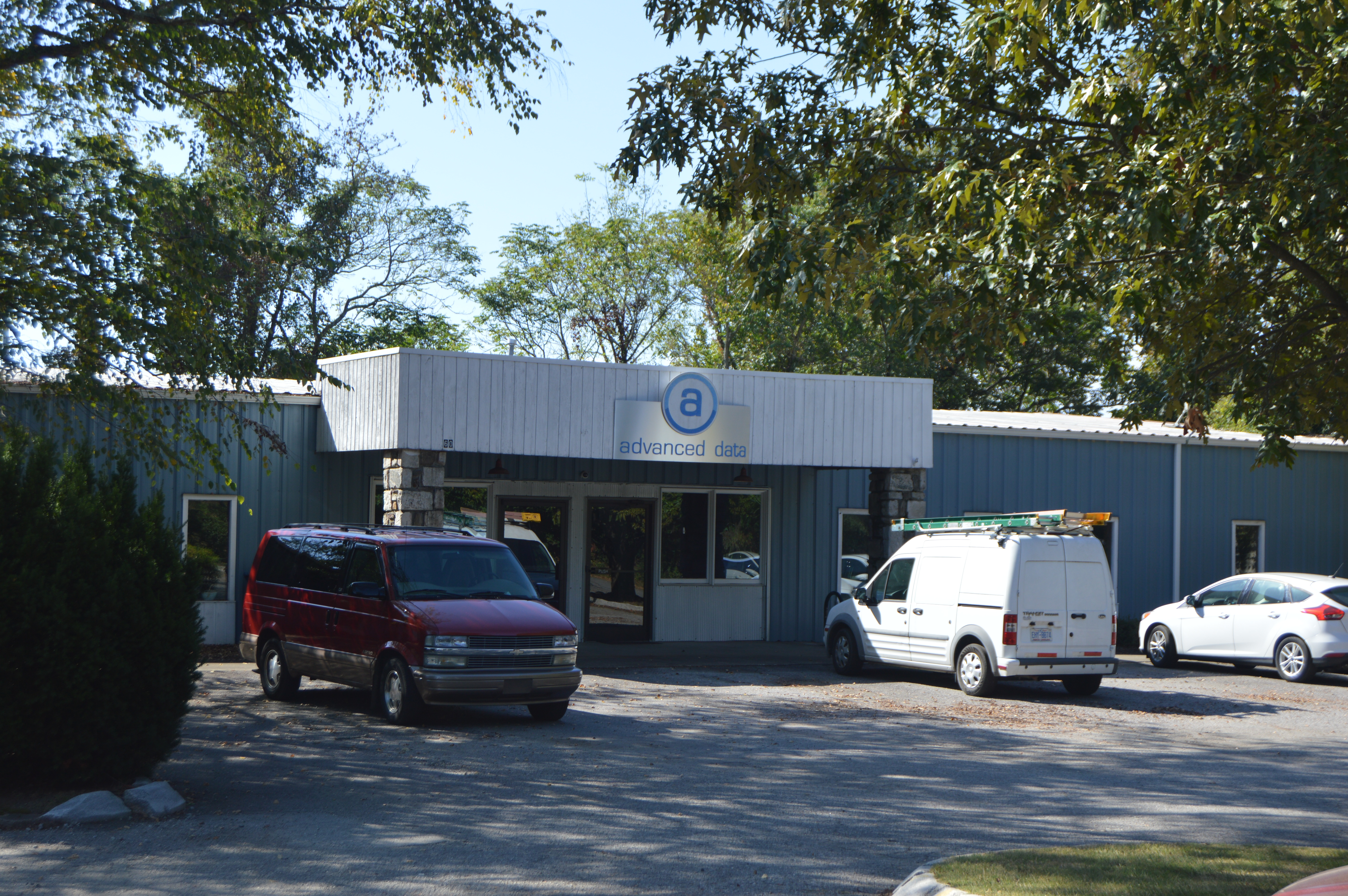 Front of the building located at 60 Ravenscroft Drive in Asheville, North Carolina, United States. Built in 1981, it occupies the site of Schoenberger Hall, which was listed on the National Register of Historic Places in 1979 and later demolished; although it is gone, Schoenberger Hall has not yet officially been removed from the National Register.